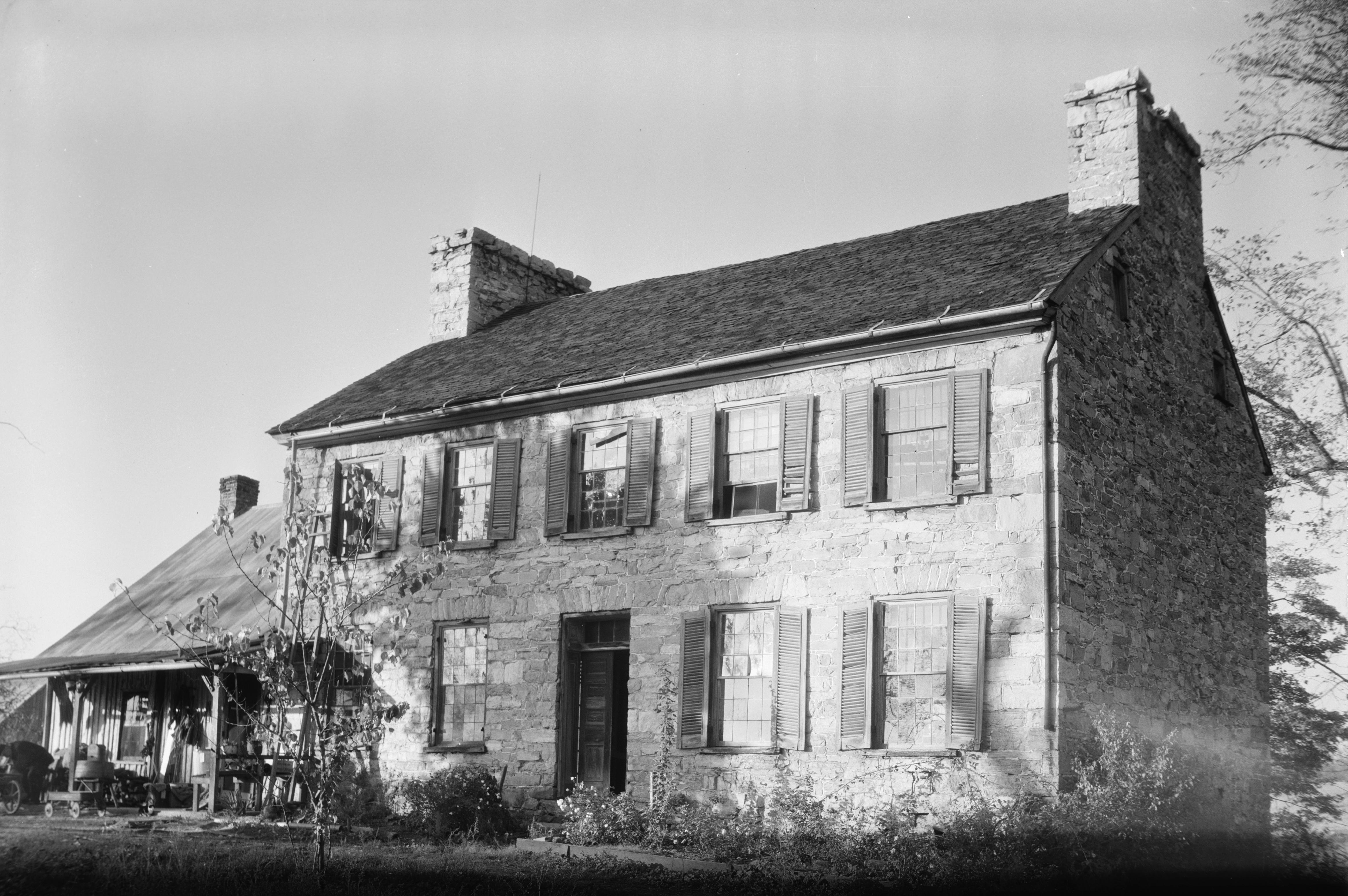 Front of the Robert Lucas House — located on WV 31 southeast of Shepherdstown in Jefferson County, West Virginia. Built in 1793, it is listed on the National Register of Historic Places. Historic American Buildings Survey of West Virginia—HABS image.